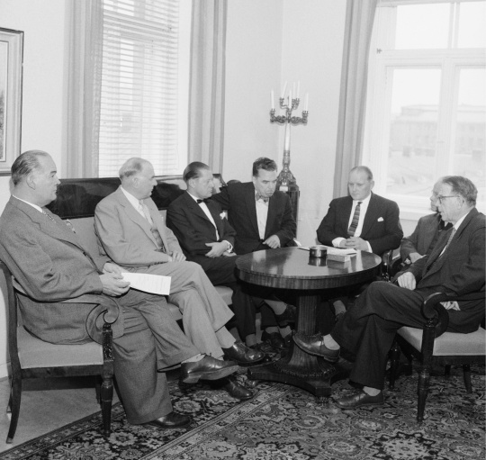 The Finnish Council of Nuclear Power presenting its estimation of costs at the Department of Finance in 1958. In the picture from the right: academic A.I.Virtanen, finance minister Päiviö Hetemäki, professor Erkki Laurila, superintendent Erkki Kinnunen, MD of Ekonon Harald Frilund and ambassador Oskar Vahervuori.